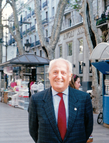 Enrique Rubio, Barcelona 1993